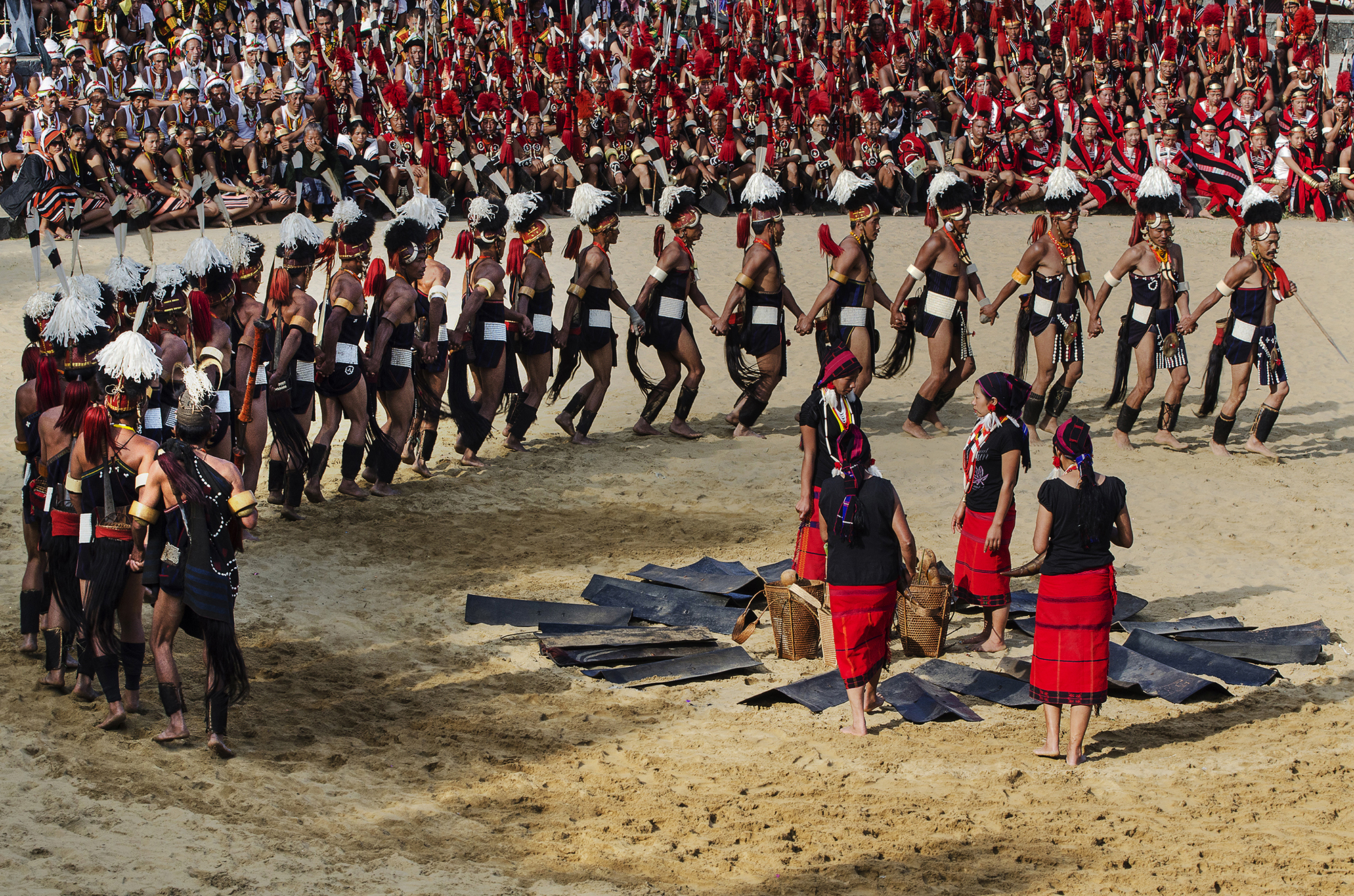 Chang Tribe Dance: Chang tribe is recognized as one of the schedule tribe of Nagaland. With high energy, they perform their traditional dance at the annual Hornbill festival that takes place at Kisama Village of Kohima, Nagaland. They are all decked up with traditional attire and jewellery. This tribe was known as Mazung during British India. Other Naga tribes know the Changs by different names including Changhai, Changru, Duenching, Machungrr, Mochumi and Mojung. This photo has been taken in the country: India